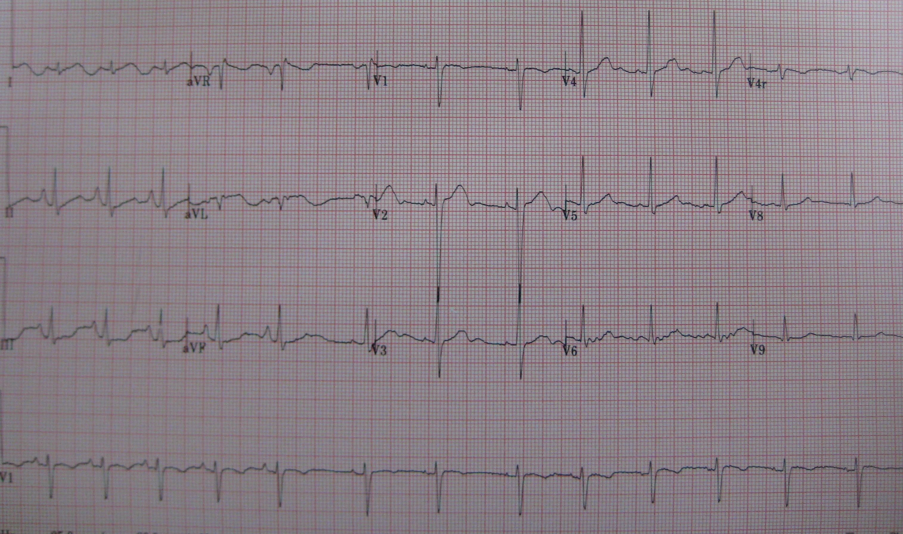 An ECG showing respiratory sinus arrhythmia